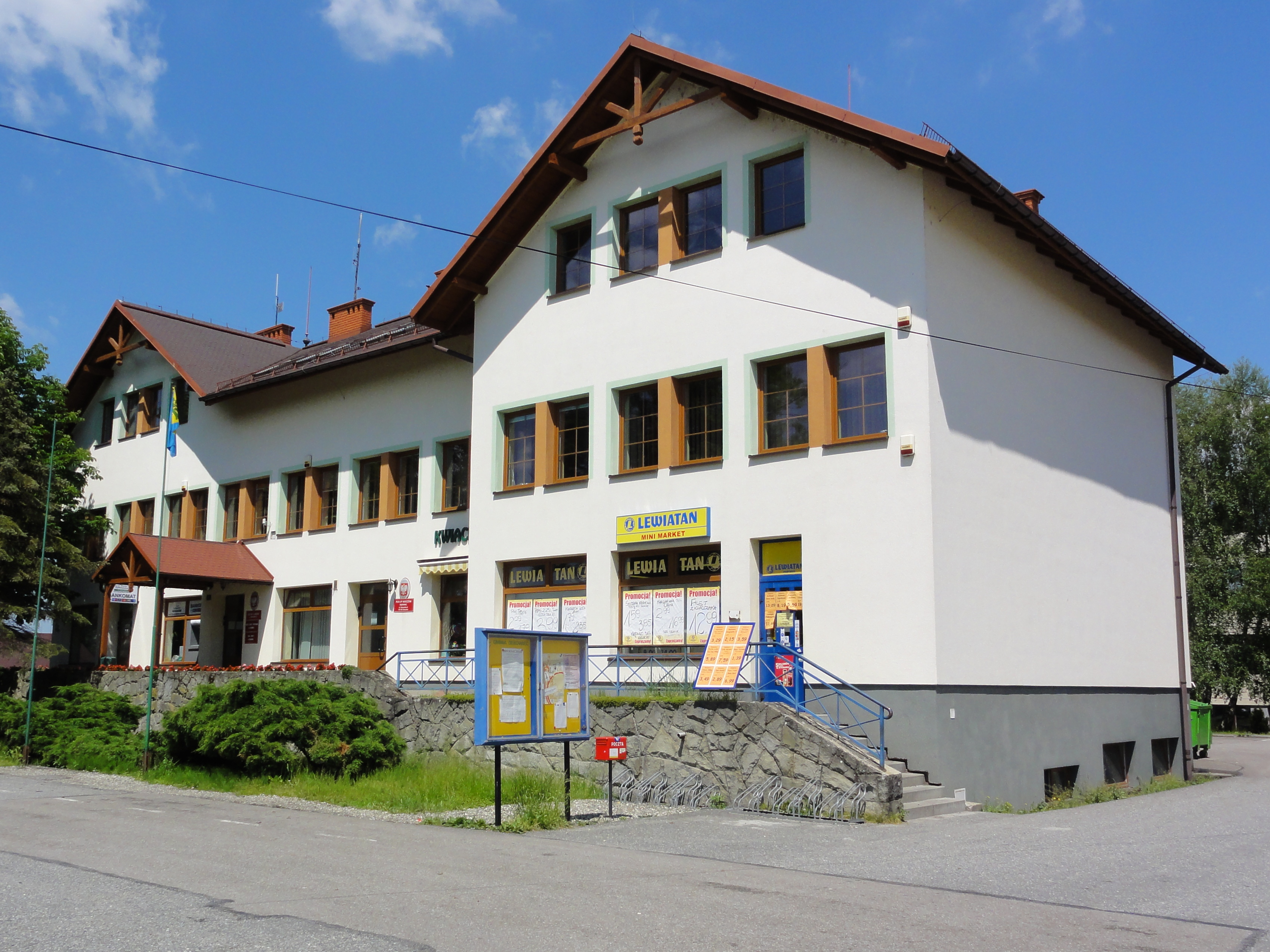 Gmina office in Dębowiec